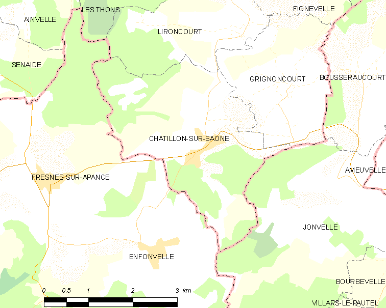 Map of French municipality Châtillon-sur-Saône